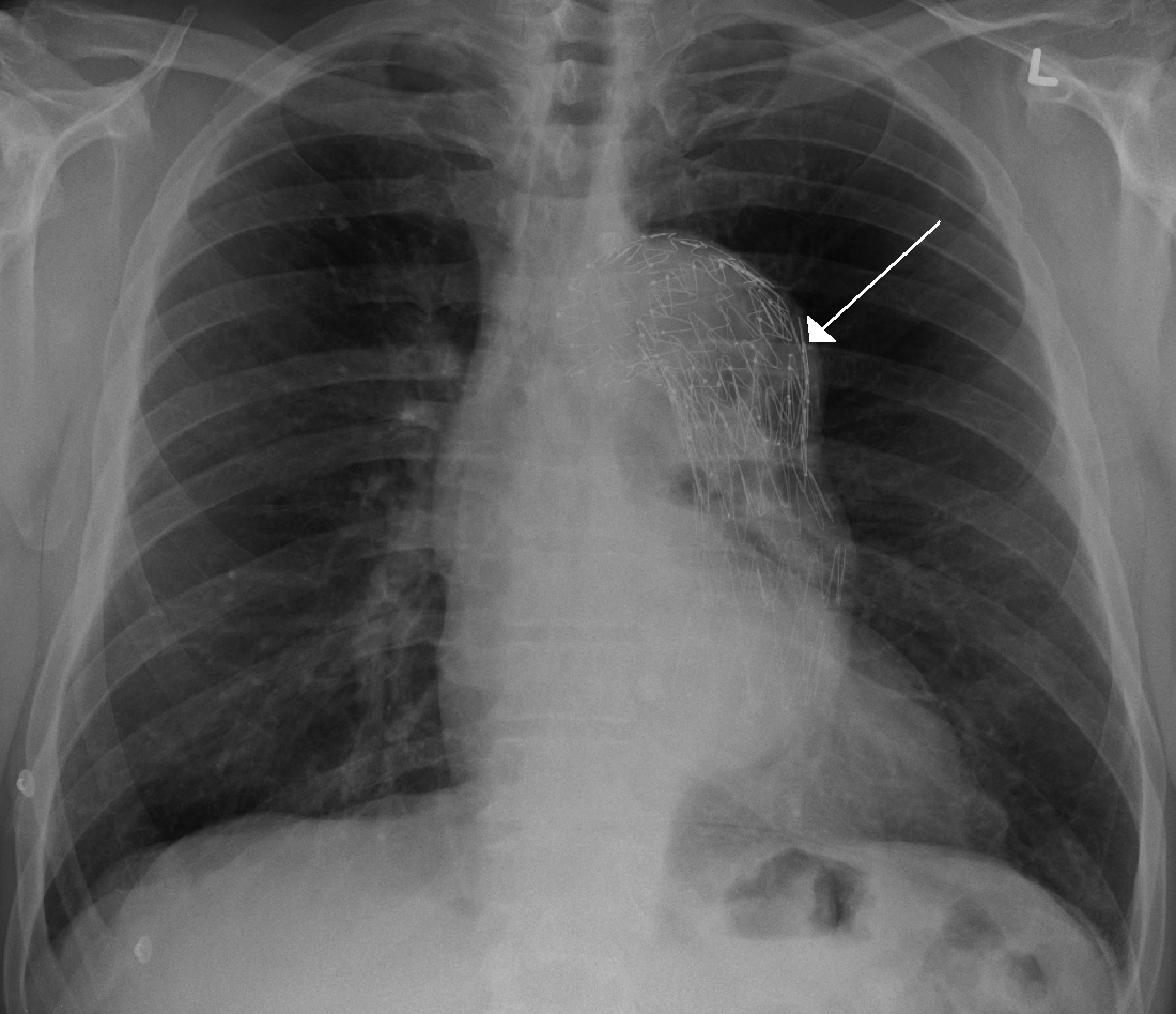 A stent placed in the thoracic aorta to threat an aneurysm.